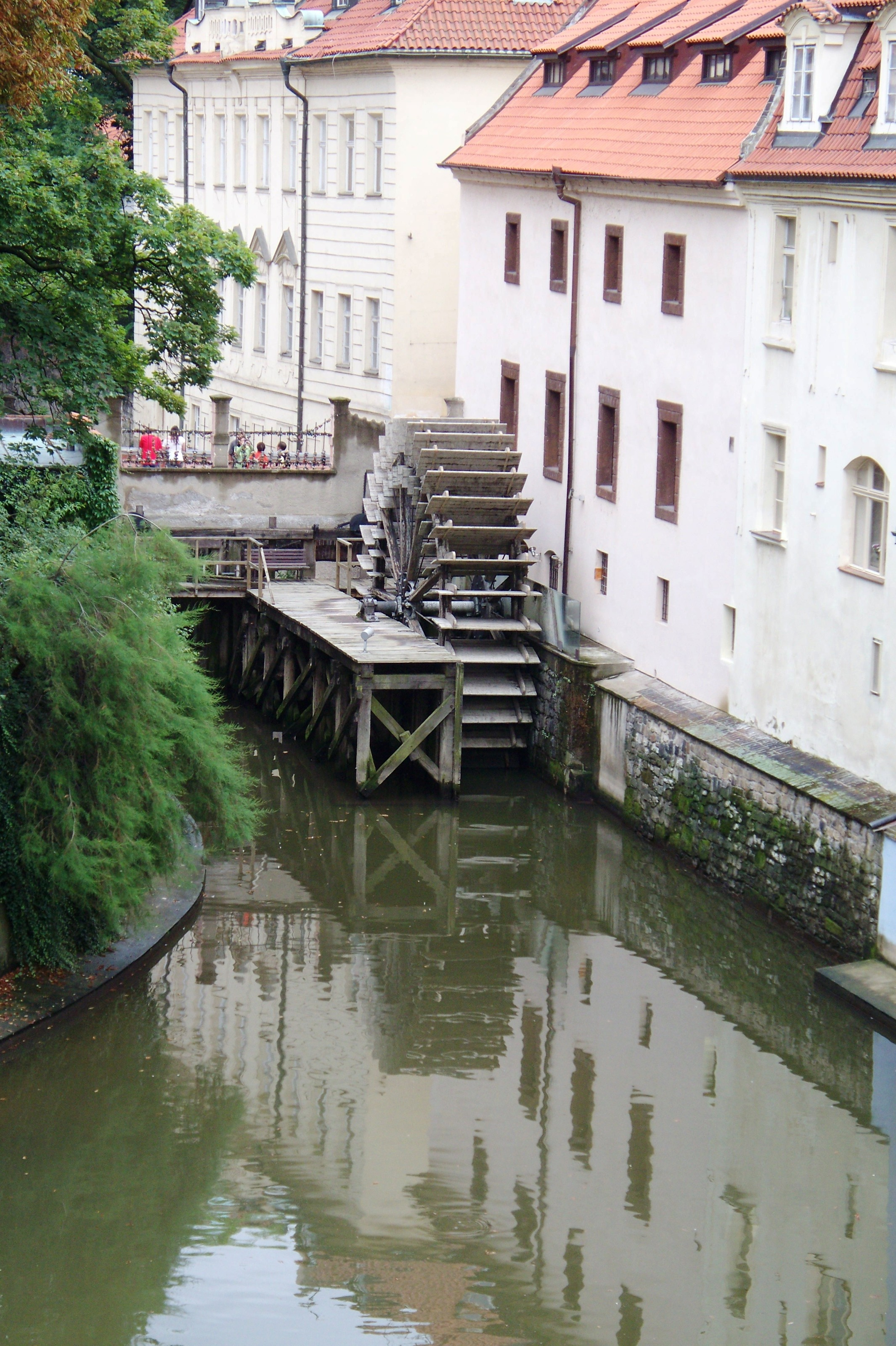 The Water wheel in Čertovka, Prague, Czech Republic.